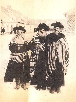 Religious Jews in Khorostkiv, small town in Ternopil region of western Ukraine, in 1917 during times First World War. Hasids. Hasidic Jews of eastern Galicia (west Ukraine, then still Austro-Hungarian empire until 1918)